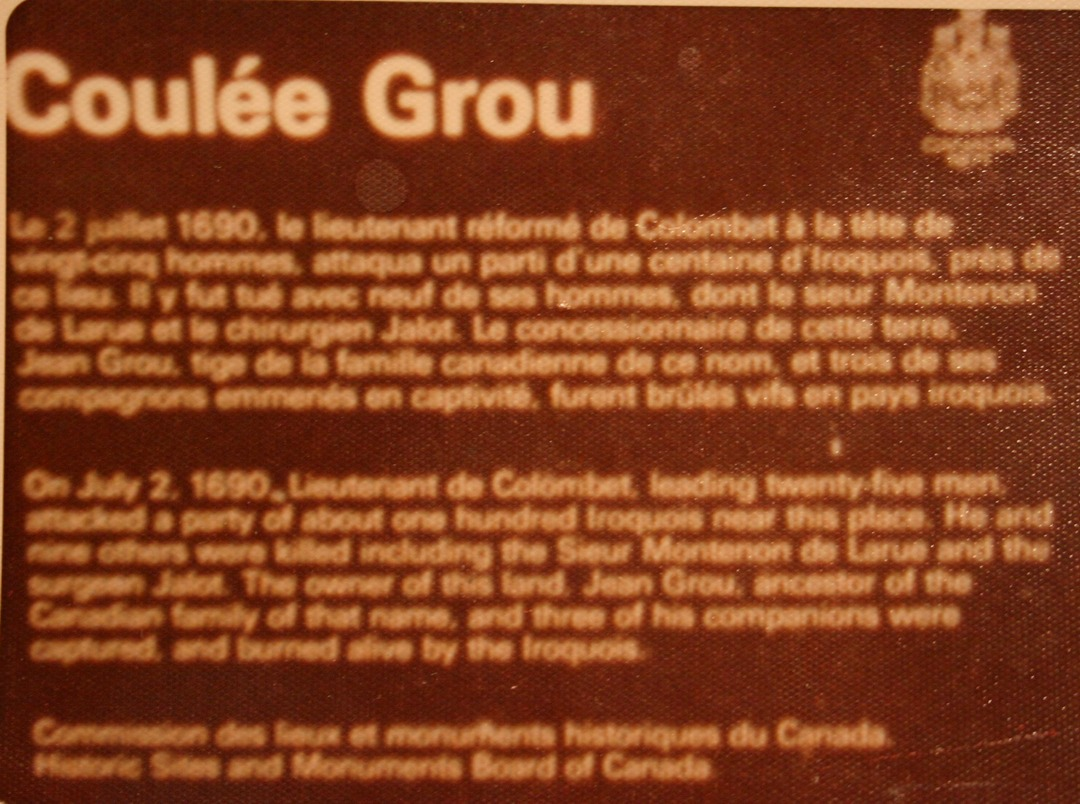 Photograph of Canadian National Monument commemorating the July 2, 1690 battle at Coulee Grou, Point-aux-Trembles, Quebec, Canada